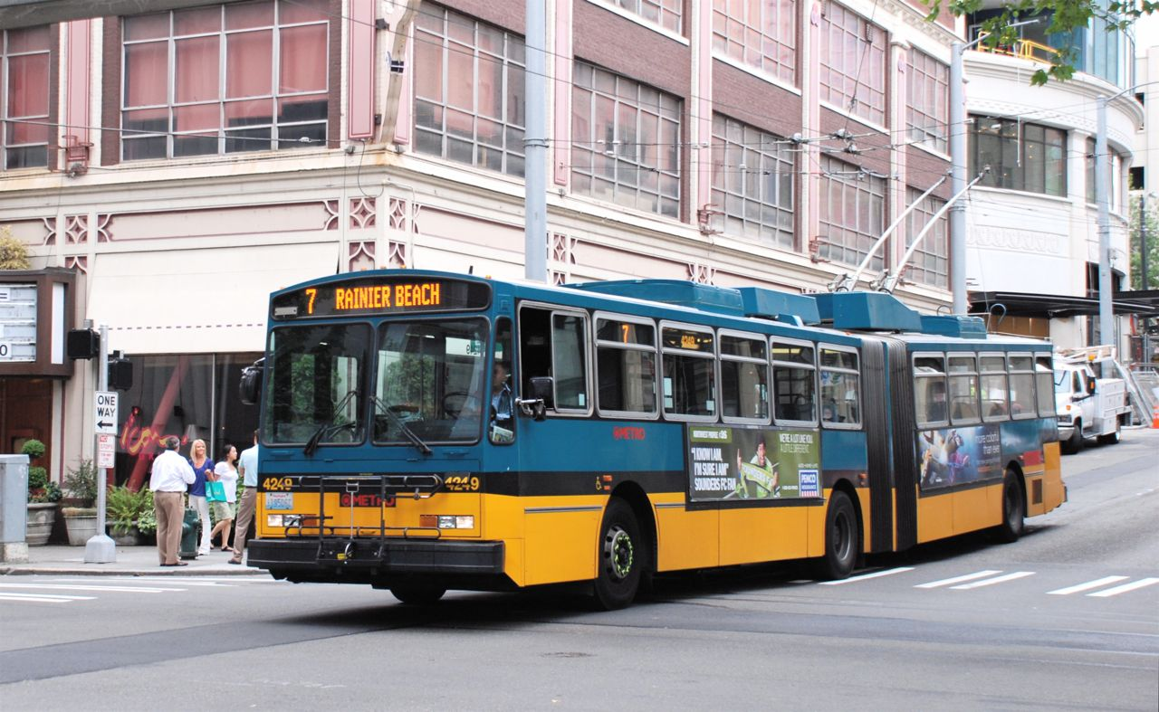 King County Metro (Seattle, Washington, USA) trolleybus 4249 was built in 1990–91 by Breda as a dual-mode bus, number 5159 in Metro's fleet. It was converted into an electric-only trolleybus in 2006 and renumbered 4249, one of 59 such conversions made by KCM in 2004–7. It is pictured eastbound on Virginia Street at 5th Avenue in downtown Seattle, starting a trip on route 7 to Rainier Beach.